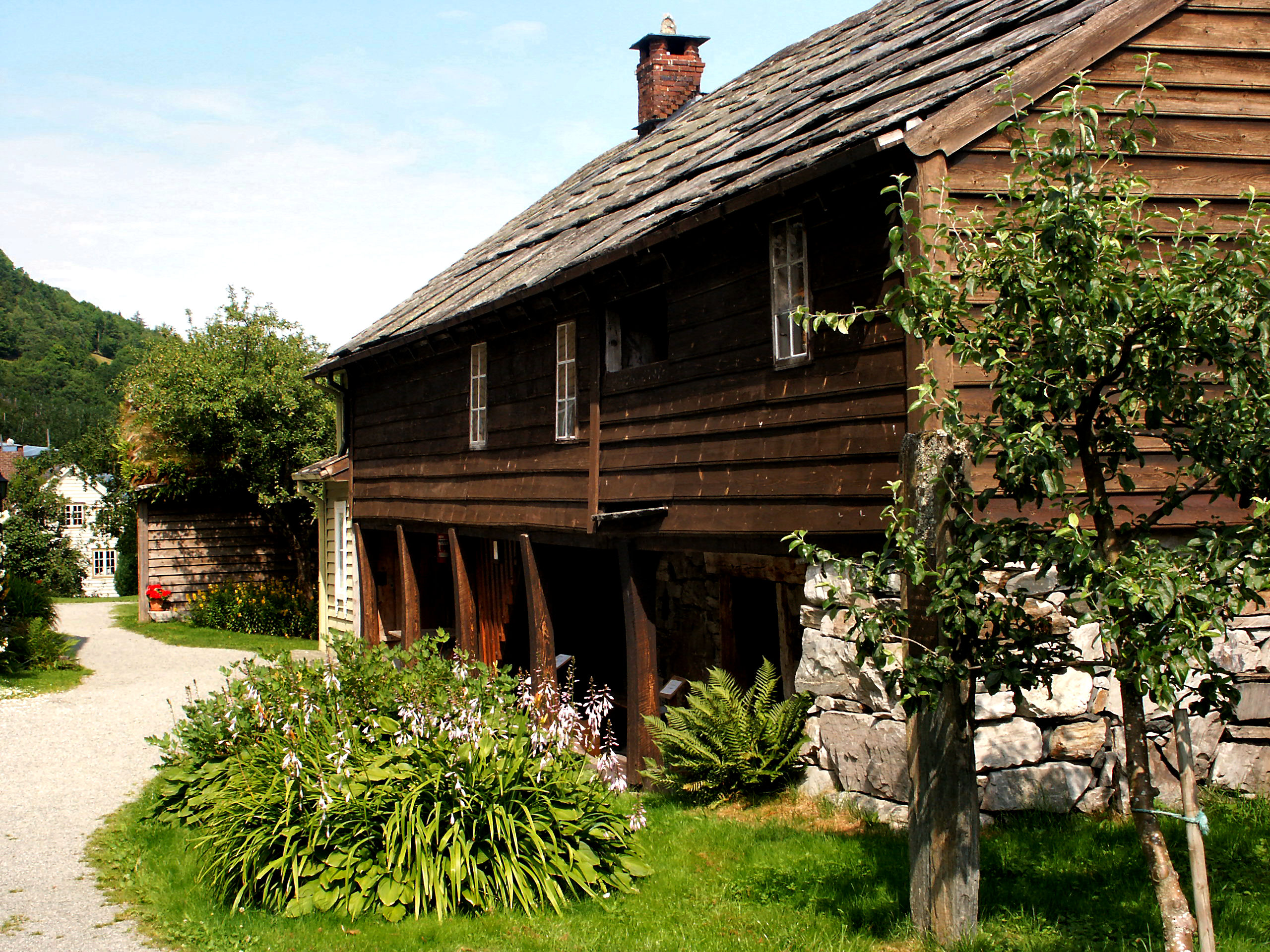 Agatunet, collective farmyard, Sørfjorden in Hardanger, Ullensvang municipality, Hordaland county, Norway.